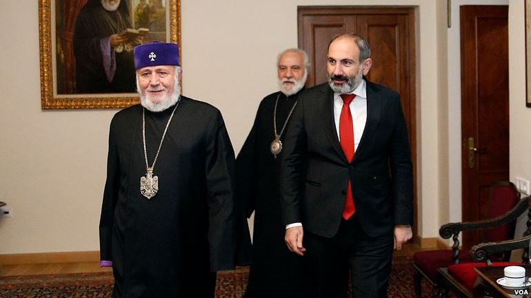 Prime minister of Armenia Nikol Pashinyan and catholicos Karekin II